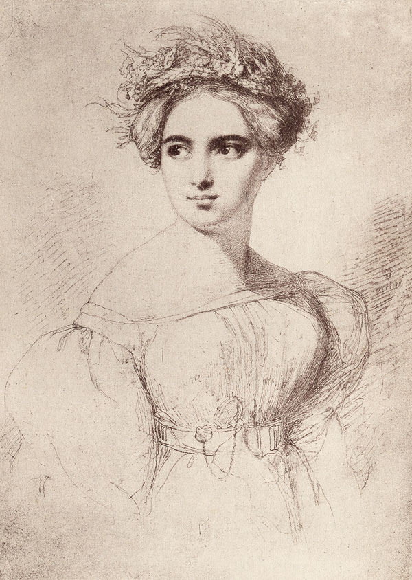 Fanny Mendelssohn Bartholdy, German composer